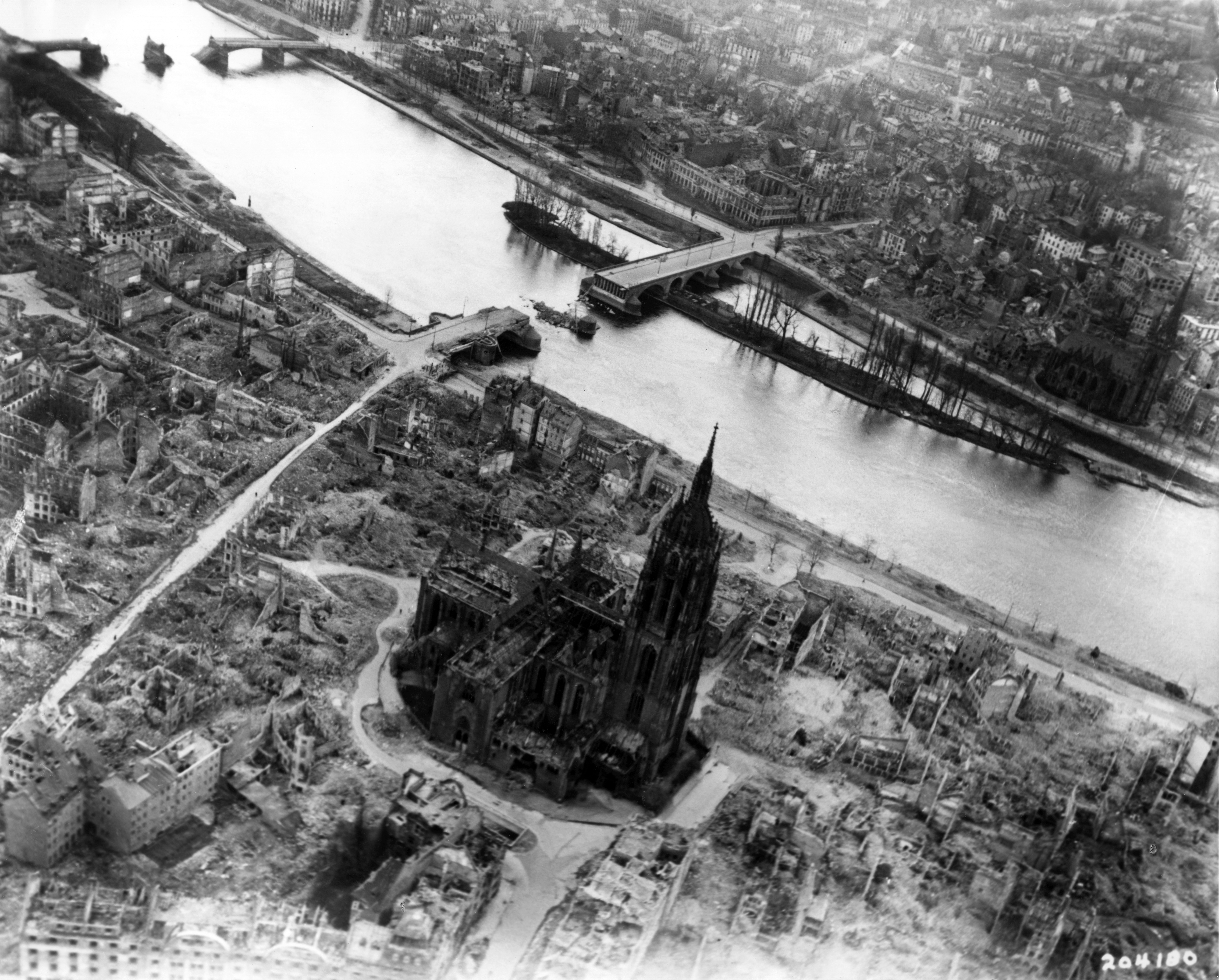 Frankfurt on the Main: Center of the Altstadt (Old Town) with the Cathedral, western part of the Fischerfeldviertel (Fisher Field Quarter) and the major part of Sachsenhausen with heavy damage and devastations of the allied bombings of World War II as seen from the air from about the Braubachstrasse (Braubach Street) to the south